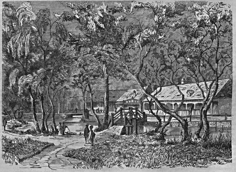 Miskolctapolca (Bath of Borsod-tapolcza), drawing in the Vasárnapi Ujság (Sunday News) 1869. issue 34.